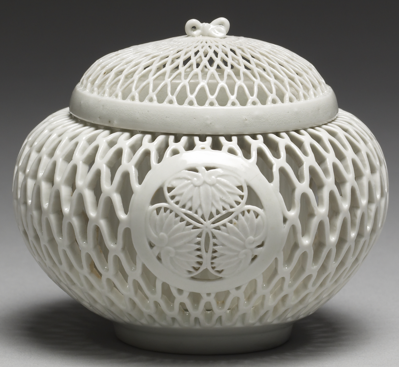 This is an example of Hirado ware.